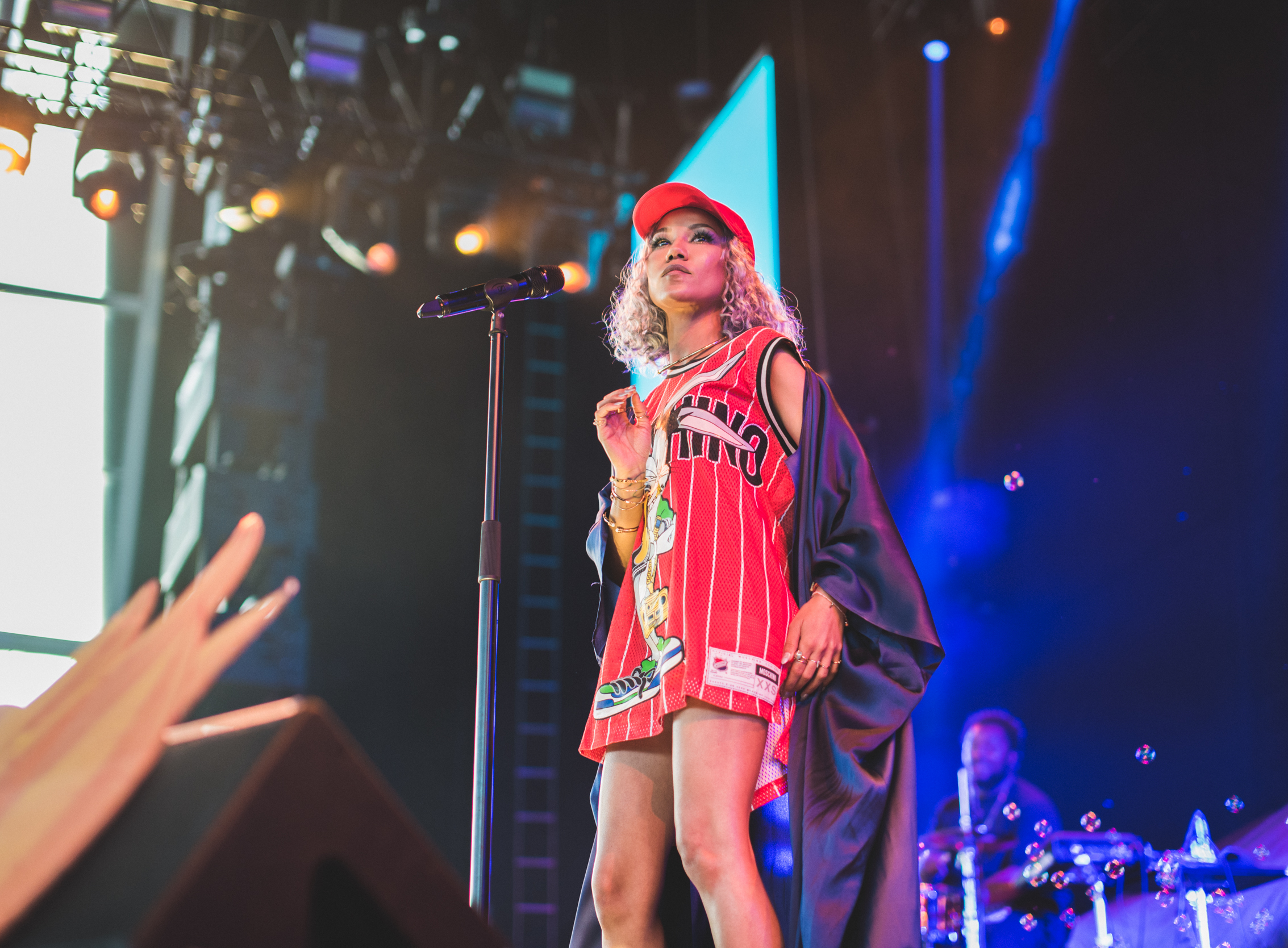 The High Road Summer Tour 2016 at the Molson Canadian Amphitheatre featuring Snoop Dogg, Wiz Khalifa, Jhené Aiko, Casey Veggies and Dj Drama. Photography by Charito Yap